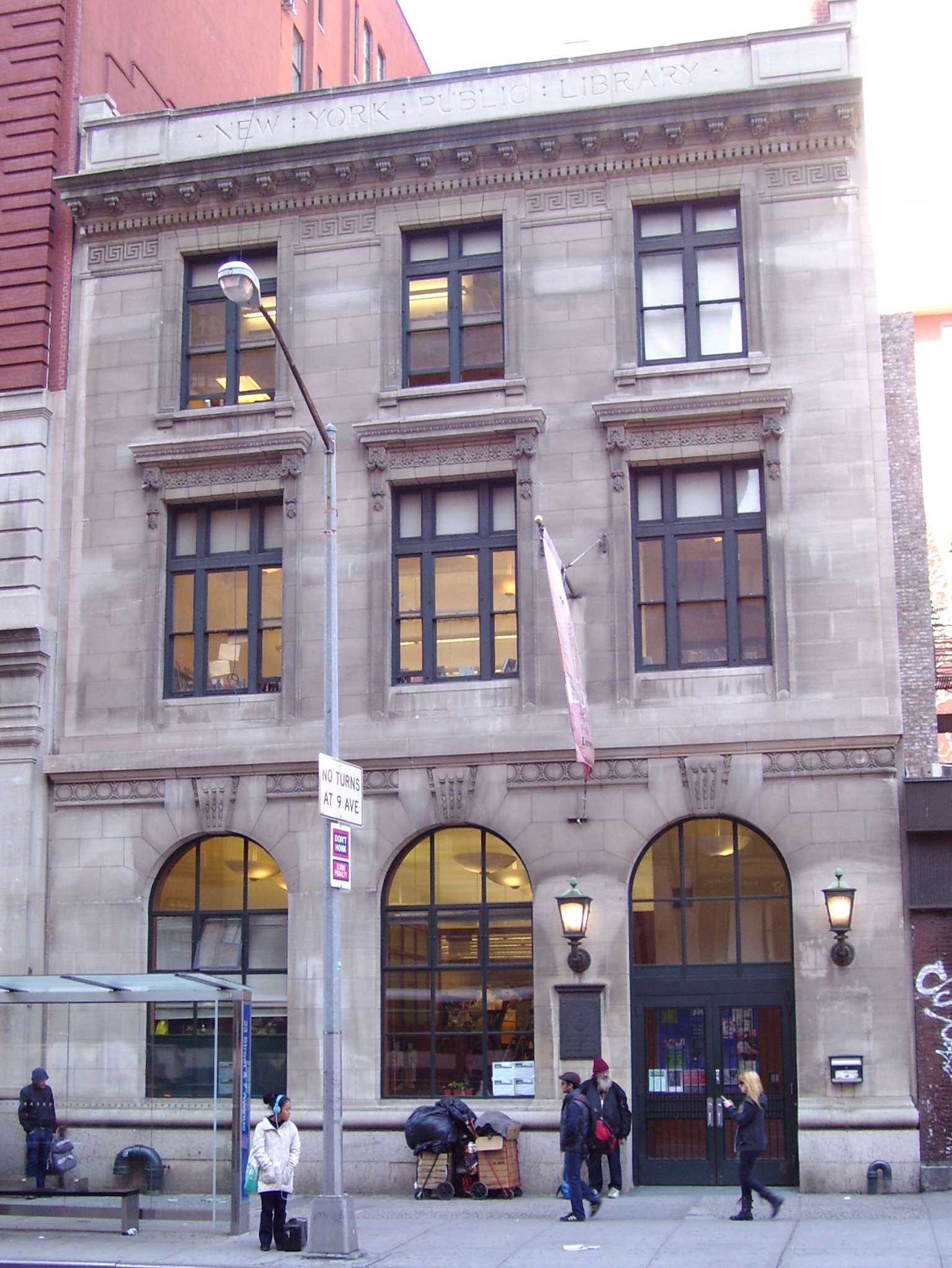 The New York Public Library's Muhlenberg Branch at 209 West 23rd Street between Seventh and Eighth Avenues in the Chelsea neighborhood of Manhattan, New York City was built in 1906 and was designed in the neo-Classical style by Carrere & Hastings, the same architects who designed the Main Building of the New York Public Library, as well as 13 other Carnegie branch libraries. The building was designated a NYC landmark on January 30, 2001. (Source: "NYCLPC Designation Report")